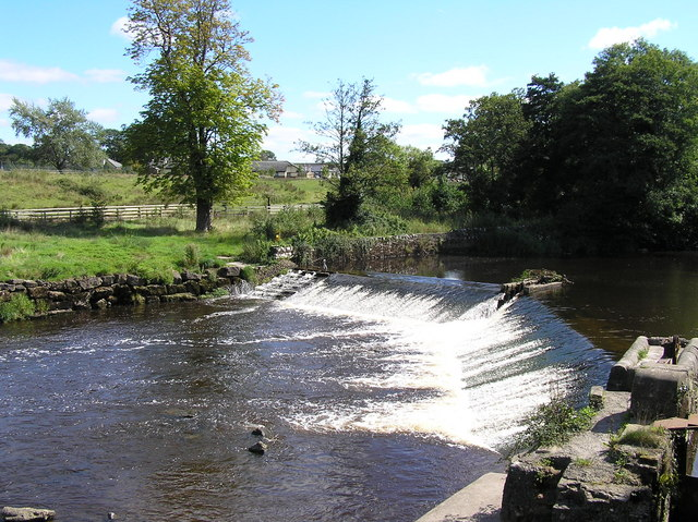 River Mulkear Weir, Annacotty Looking south east from Mill to weir on River Mulkear.